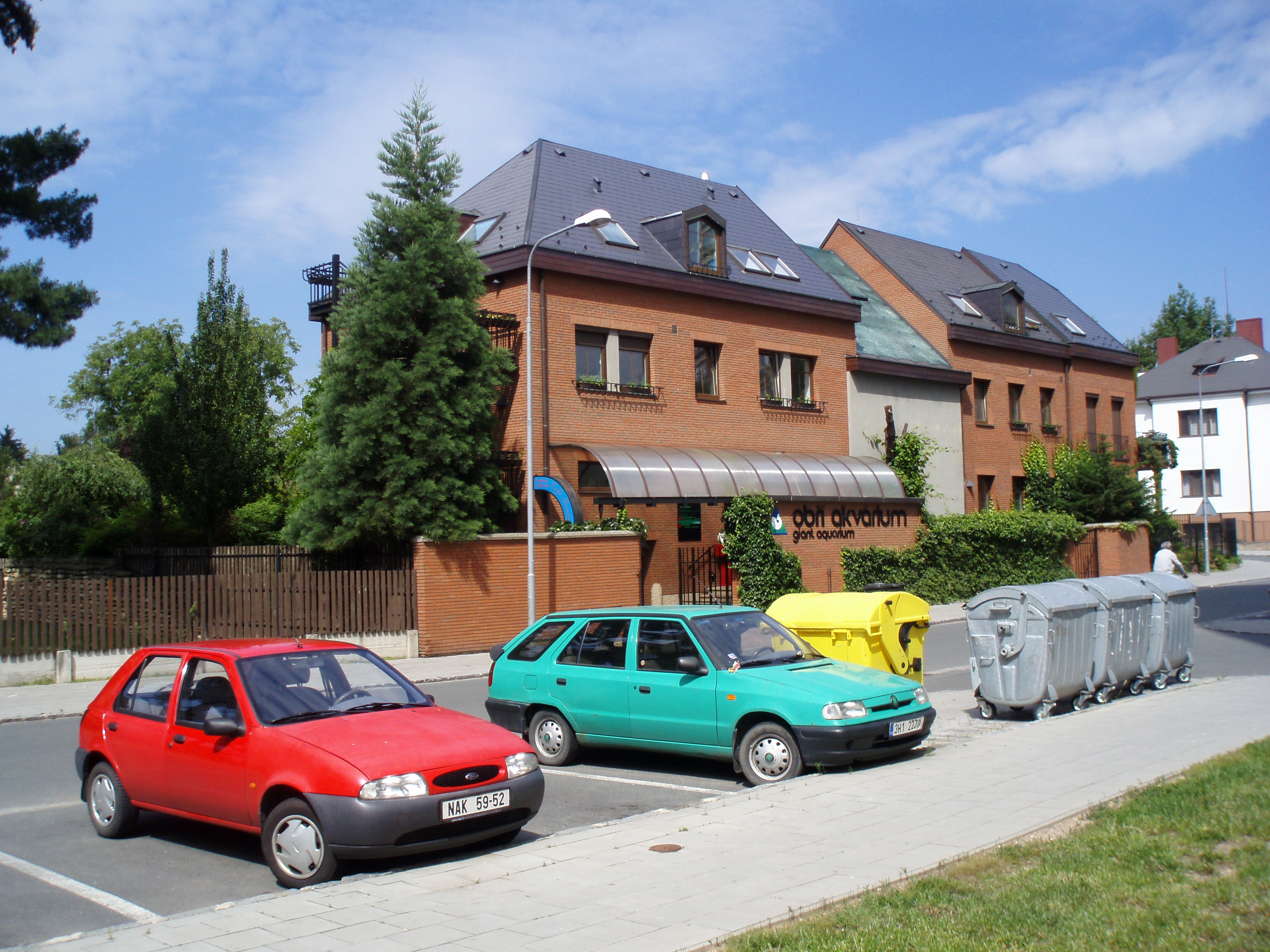 Giant Aquarium in Hradec Králové (Czechia)